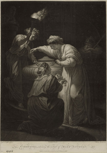 CLEOPATRA, ADORNING THE TOMB OF MARK ANTHONYtitle QS:P1476,en:"CLEOPATRA, ADORNING THE TOMB OF MARK ANTHONY" label QS:Len,"CLEOPATRA, ADORNING THE TOMB OF MARK ANTHONY" Engraving by Thomas Burke (1749−1815).